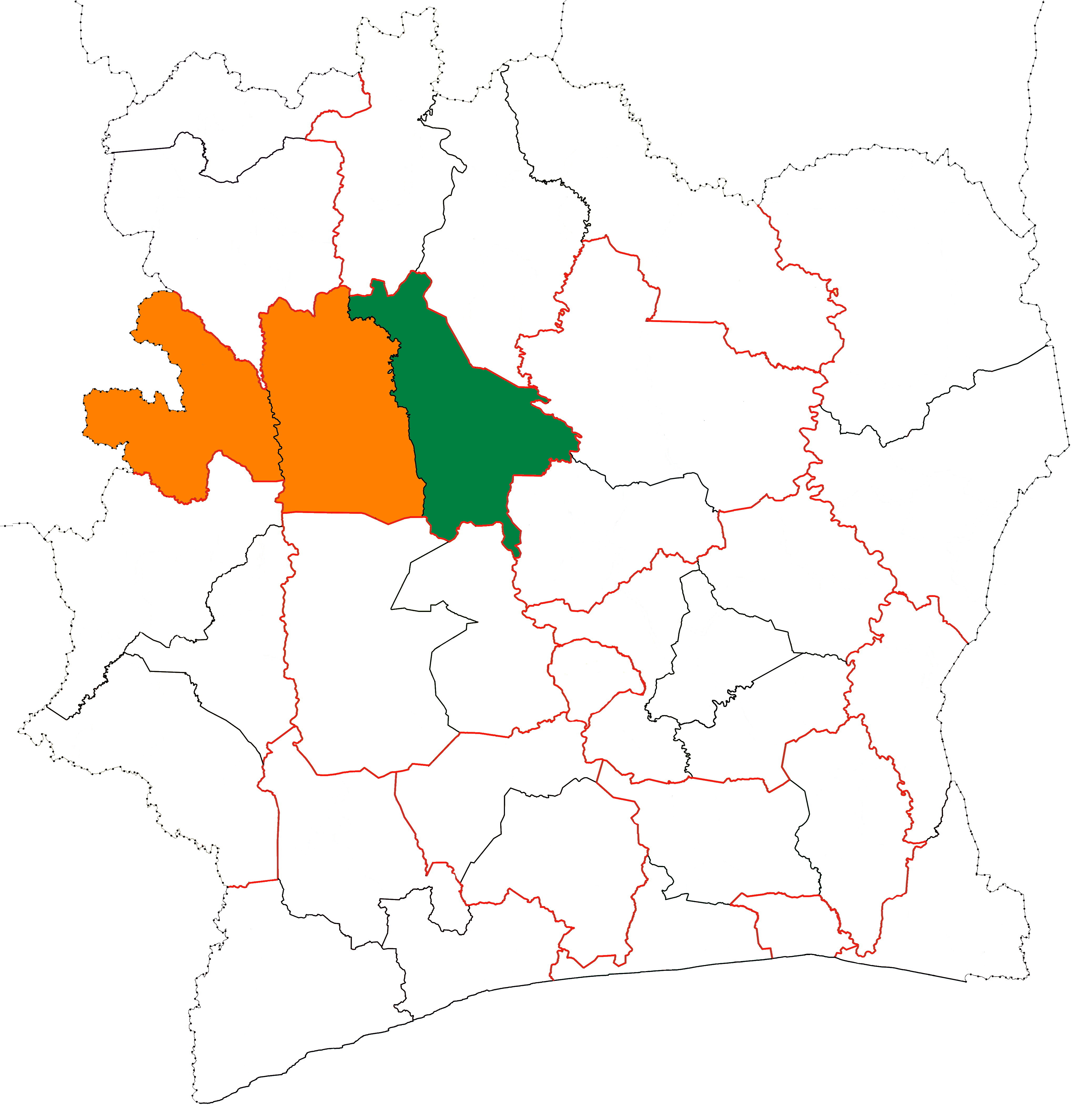 The location of Béré region (green) in Côte d'Ivoire. The other shaded areas represent the other parts of Woroba District.